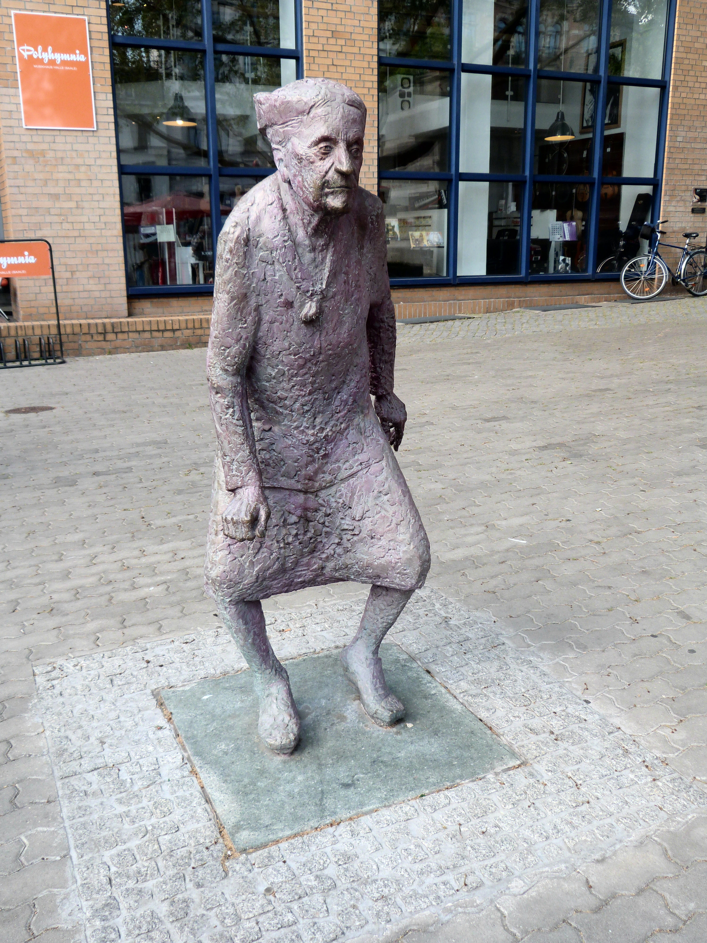 Eine Begegnung mittendrin (A meeting in the middle), sculpture Frau Roth from Maya Graber, Geiststrasse, Halle (Saale)